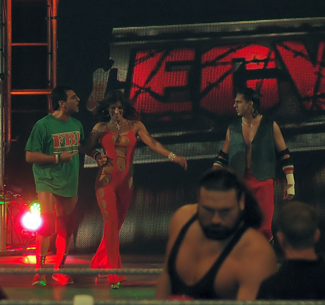 Professional wrestling stable The Full Blooded Italians in 2005.